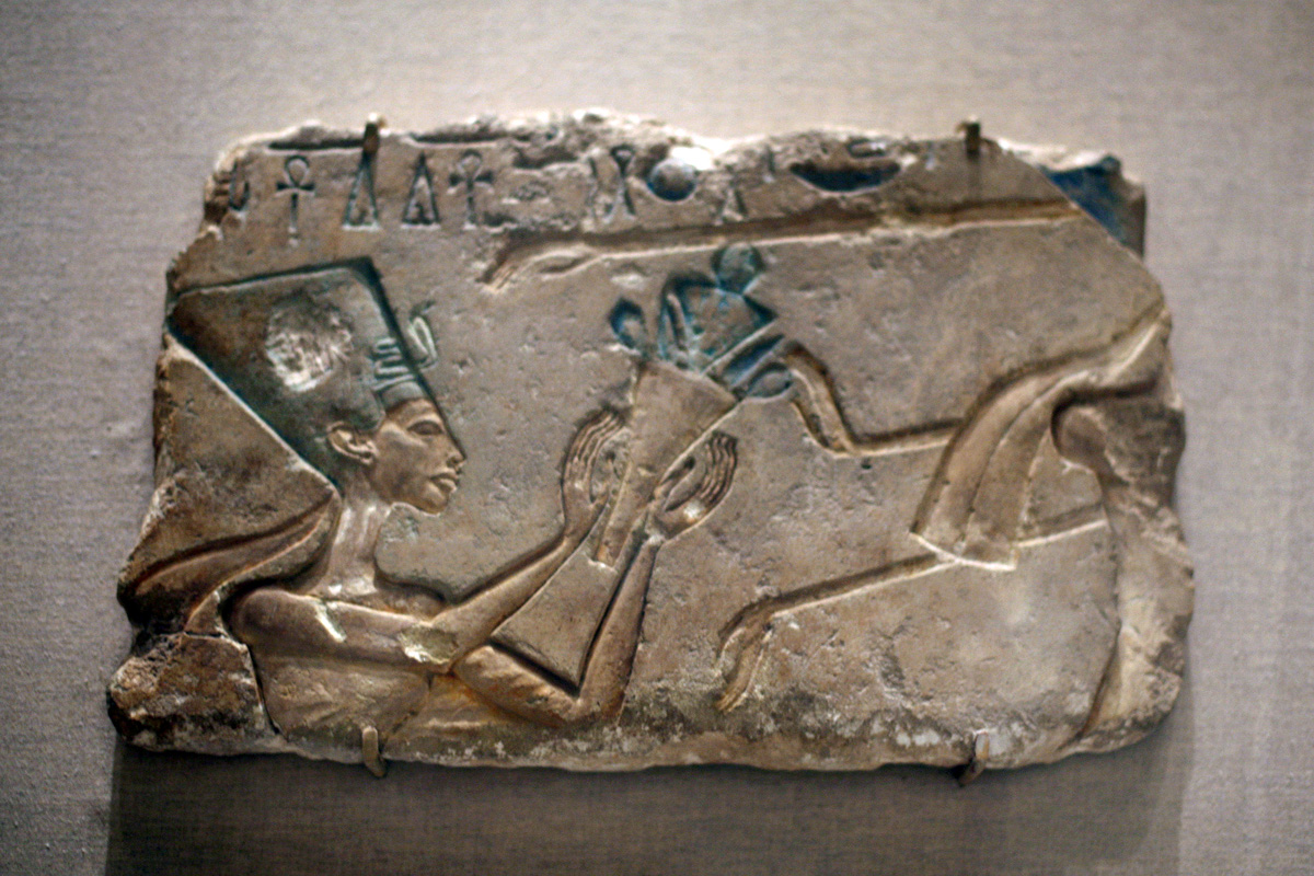 Nefertiti, ca. 1352-1336 B.C.E. Limestone, painted, 9 1/4 x 15 3/16 in. (23.5 x 38.5 cm). Brooklyn Museum, Charles Edwin Wilbour Fund, 71.89.